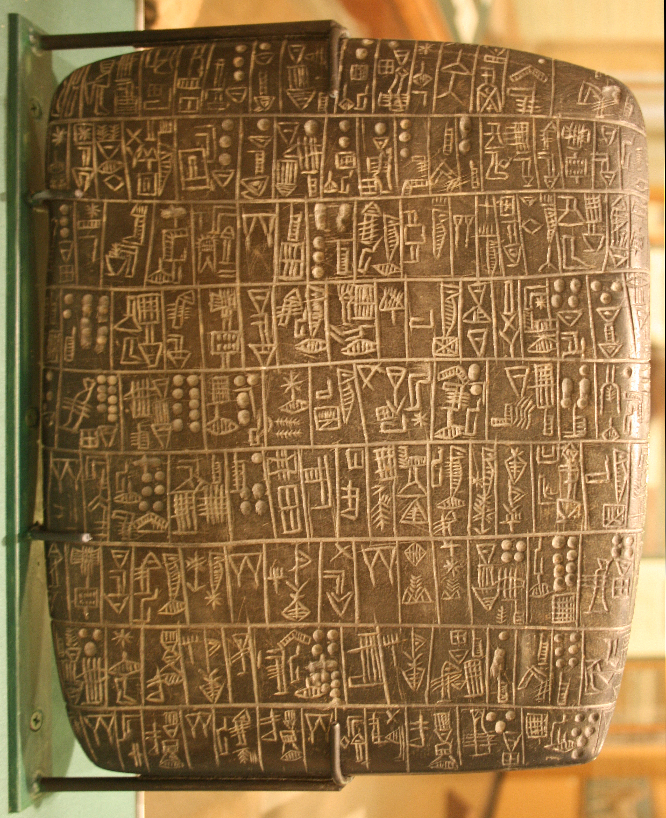 Chicago Stone, side 2, recording sale of a number of fields, probably from Isin, Early Dynastic Period, c. 2600 BC, black basalt - Oriental Institute Museum, University of Chicago